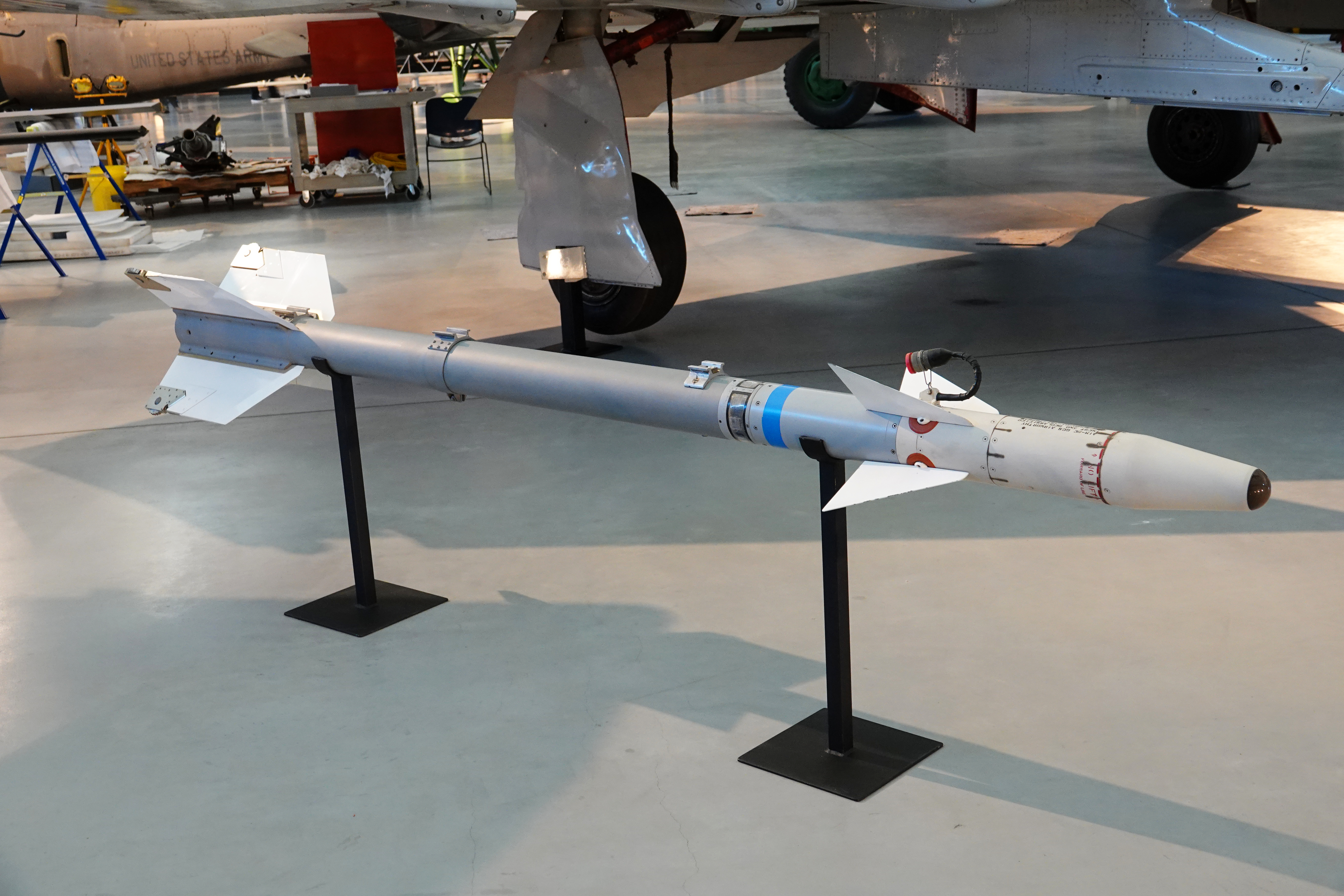 The Sidewinder has been one of the most successful short-range air-to-air missiles for the United States, and its first heat-seeking guided missile to become operational. Many models have been produced since the mid-19505, including the standard version displayed here. A variety of aircraft have carried sidewinders, and variants have been adopted by about 40 countries. They have been used extensively in combat, including the Vietnam and Persian Gulf wars. Picture taken at the National Air and Space Museum's Steven F. Udvar-Hazy Center in Chantilly, Virginia, USA. Length: 3 m (9 ft 11 in) Weight, loaded: 70 kg (155 lb) Range: 4.8 km (3 mi) Propellant: solid fuel Manufacturer: Philco Ford Aerospace-- Transferred from the U.S. Air Force Museum